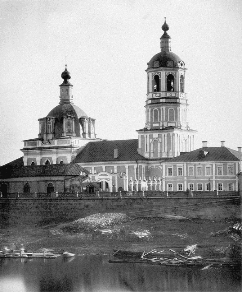 Church of St Nicholas Zayaitsky, Moscow.